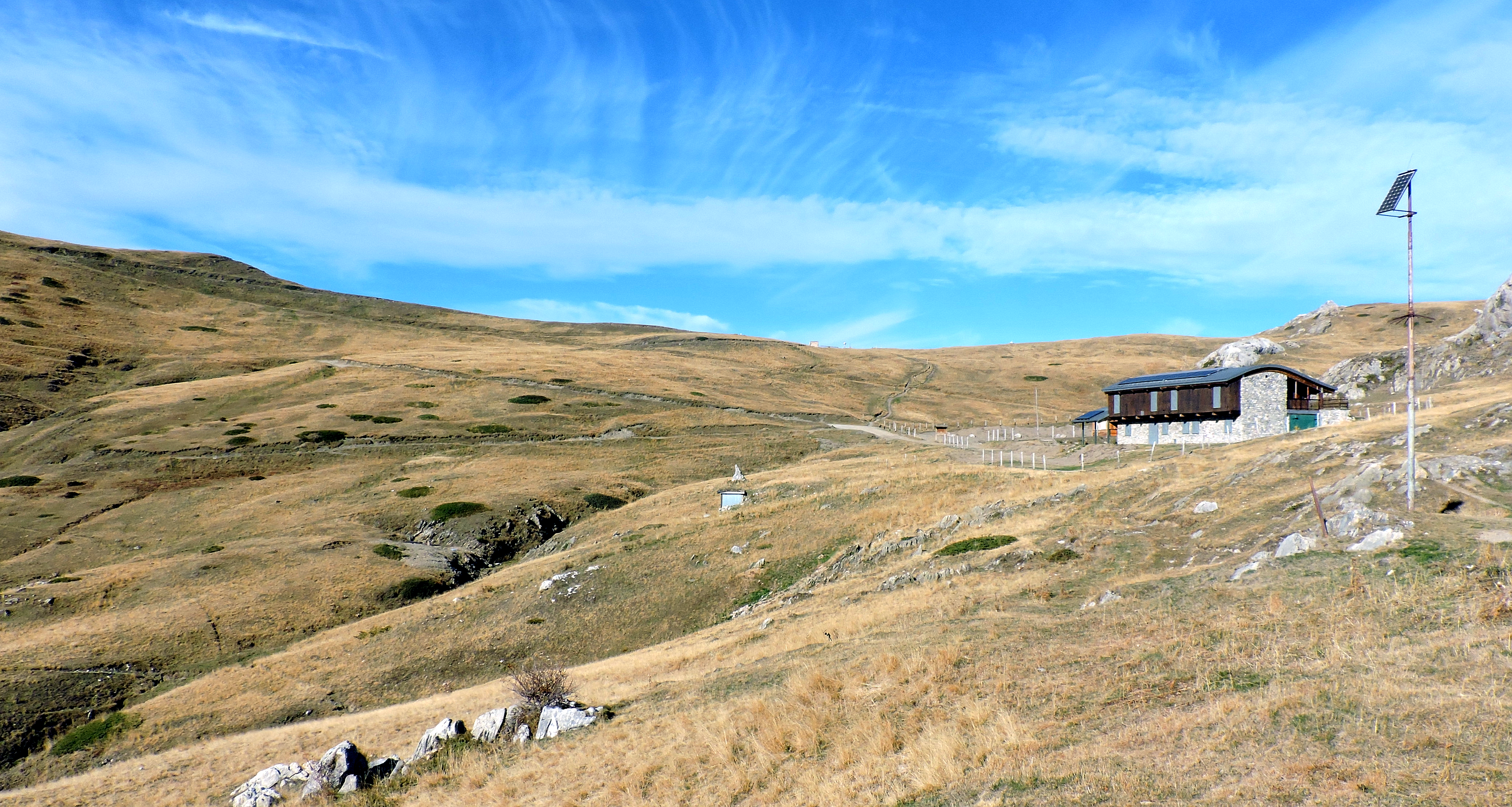 Colle dei Signori from the Italian side (Ligurian Alps) and rifugio Don Barbera